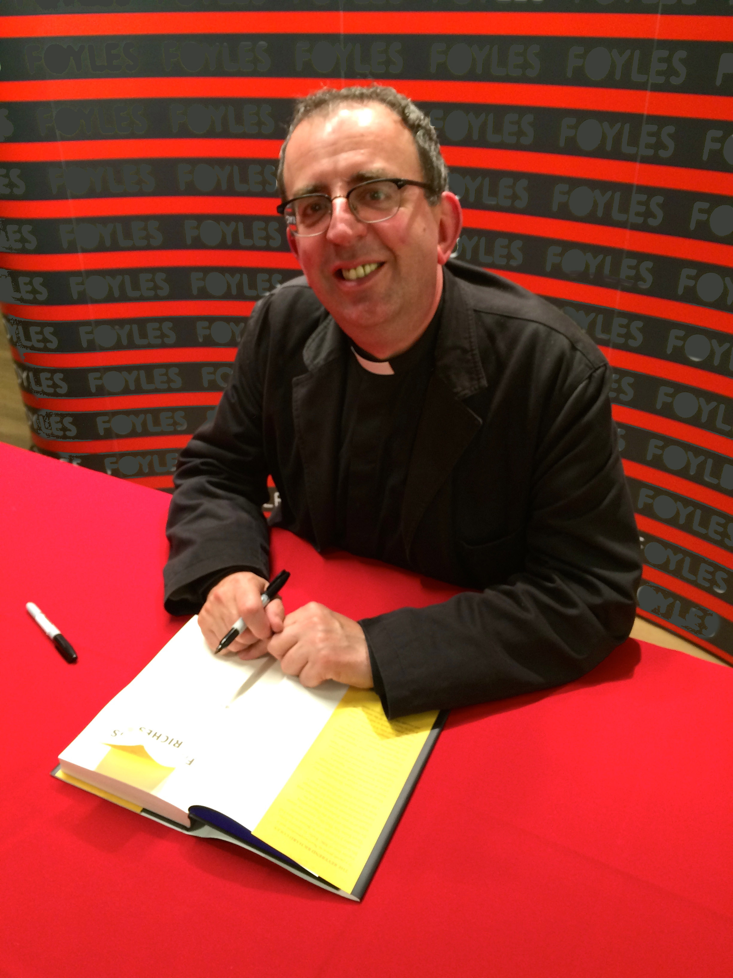 Rev Richard Coles (a former musician - The Communards).